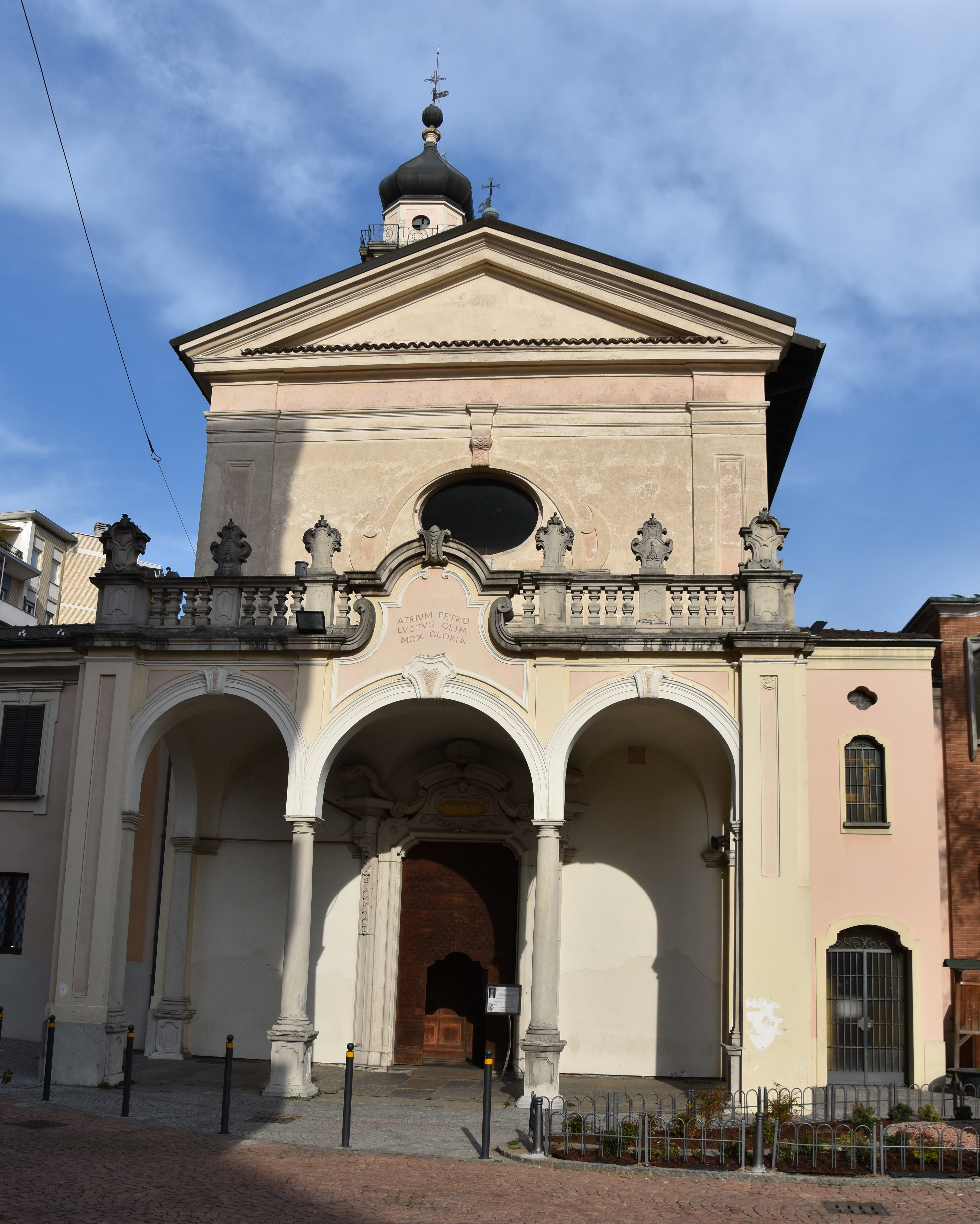 Saints Peter and Paul church in Varese, Italy.